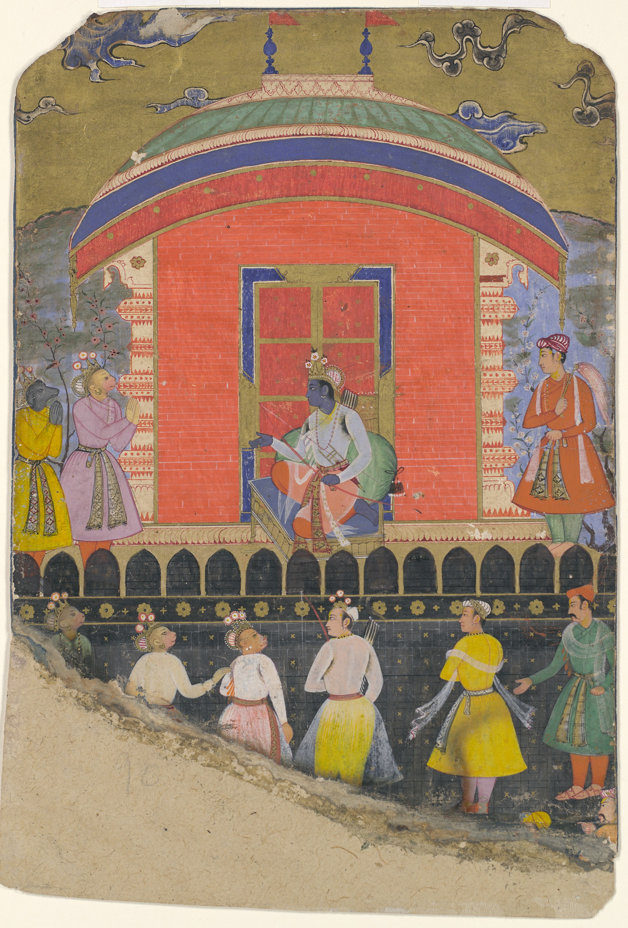 "Rama Receives Sugriva and Jambavat, the Monkey and Bear Kings", Folio from a Ramayana Object Name: Illustrated manuscript, folio Reign: Akbar (1556–1605) Geography: India Medium: Ink, opaque watercolor, and gold on paper Dimensions: Painting: H. 10 7/8 in. (27.6 cm) W. 7 1/2 in. (19.1 cm) Page: H. 10 7/8 in. (27.6 cm) W. 7 1/2 in. (19.1 cm) Mat: H. 19 1/4 in. (48.9 cm) W. 14 1/4 in. (36.2 cm) Classification: Codices Credit Line: Cynthia Hazen Polsky and Leon B. Polsky Fund, 2002 Accession Number: 2002.503 Prince Rama’s victory over the demon king Ravana was won with the aid of the monkey and bear armies. Here, the blue-skinned Rama is seated in front of a curved pavilion with the monkey and bear kings, Sugriva and Jambavat, who stand before him with folded hands. The page comes from a copy of the Ramayana probably made for the Mughal courtier Bir Singh Deo of Datia.